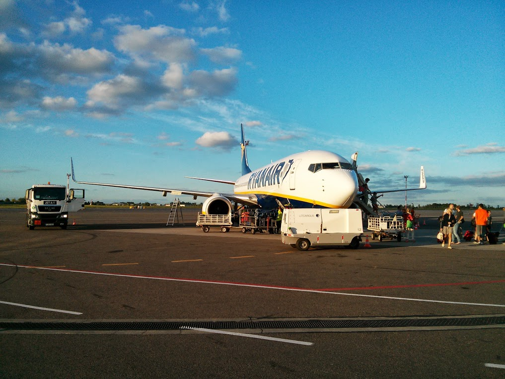 Ryanair Boeing 737-800 just landed at Vilnius International Airport (VNO)